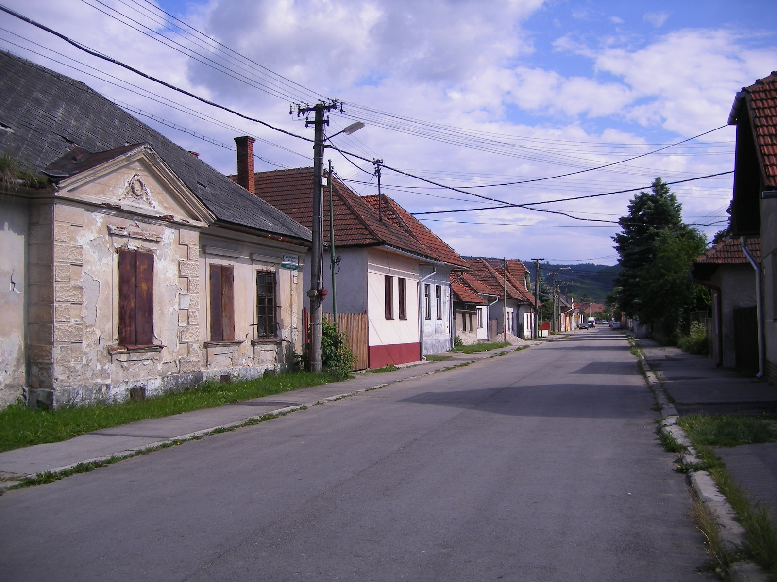 Sučany - street view